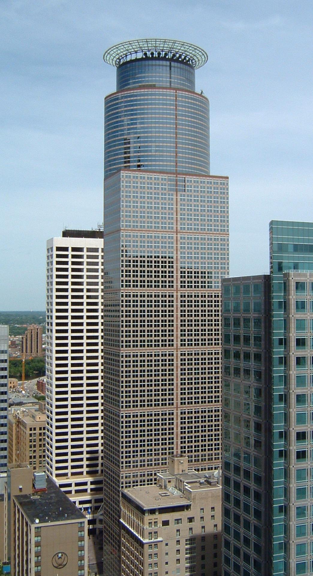 en:225 South Sixth in Minneapolis, Minnesota as viewed from the observation deck of the Foshay Tower. Photo taken on June 8, 2005 by User:Mulad. Hereby released into the public domain.